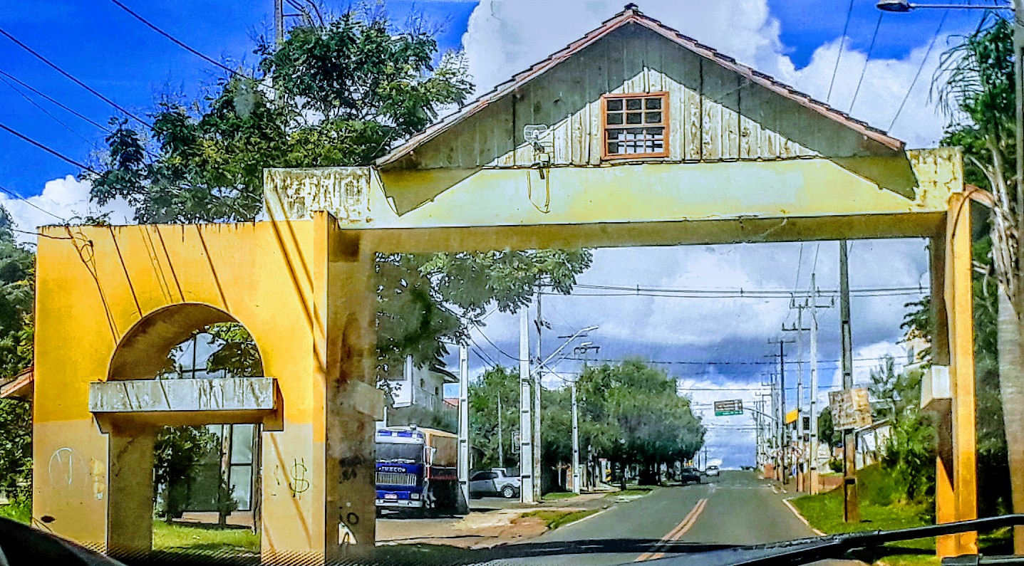 City gate of Tibagi-PR, Brazil